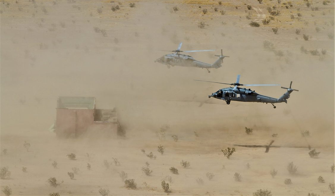 MH-60S helicopters assigned to HSC-85 perform overland insertion training